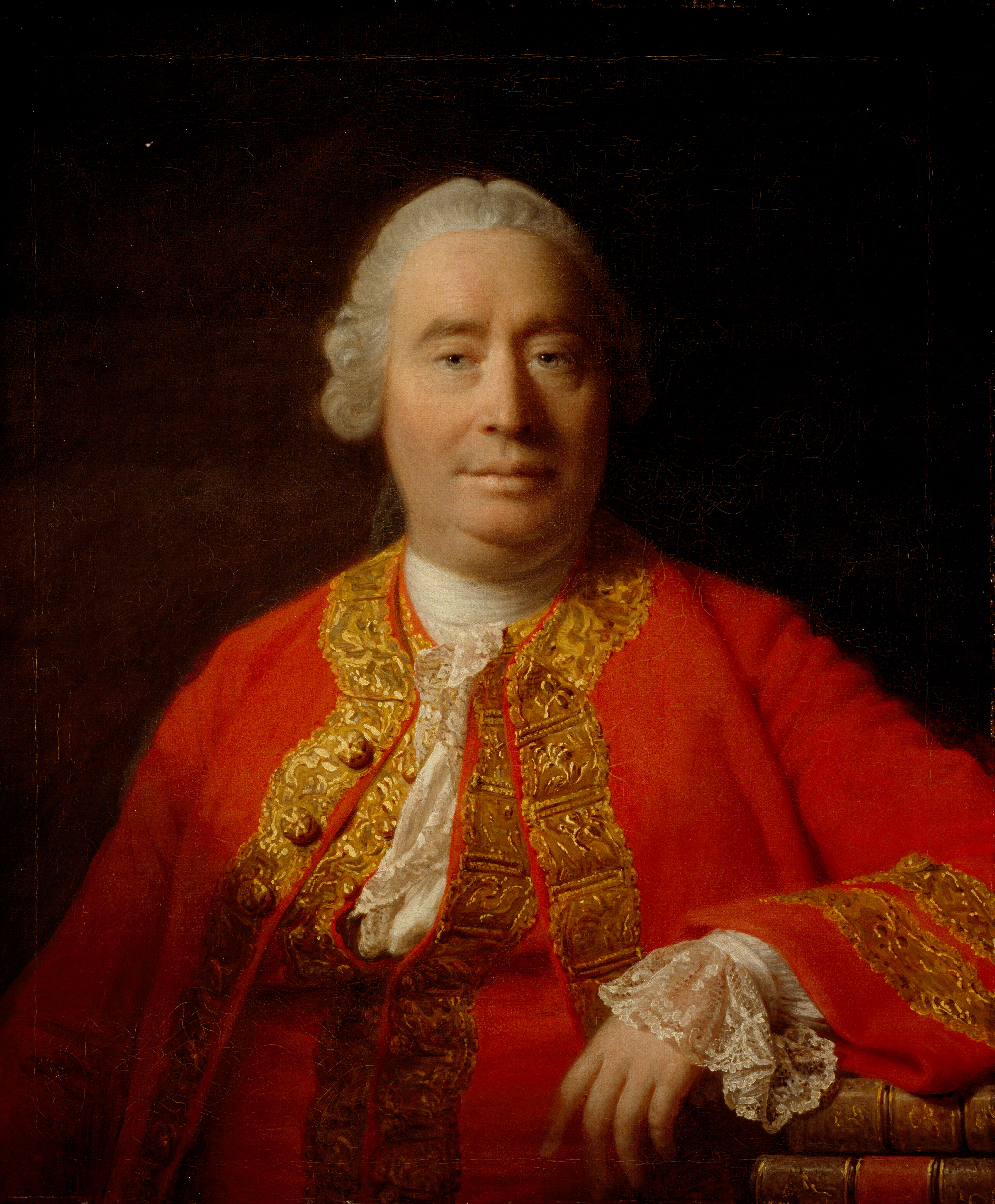 Oil painting on canvas.